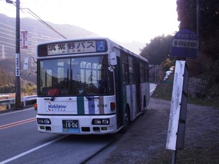 Chikushino Bus Mikasa Route